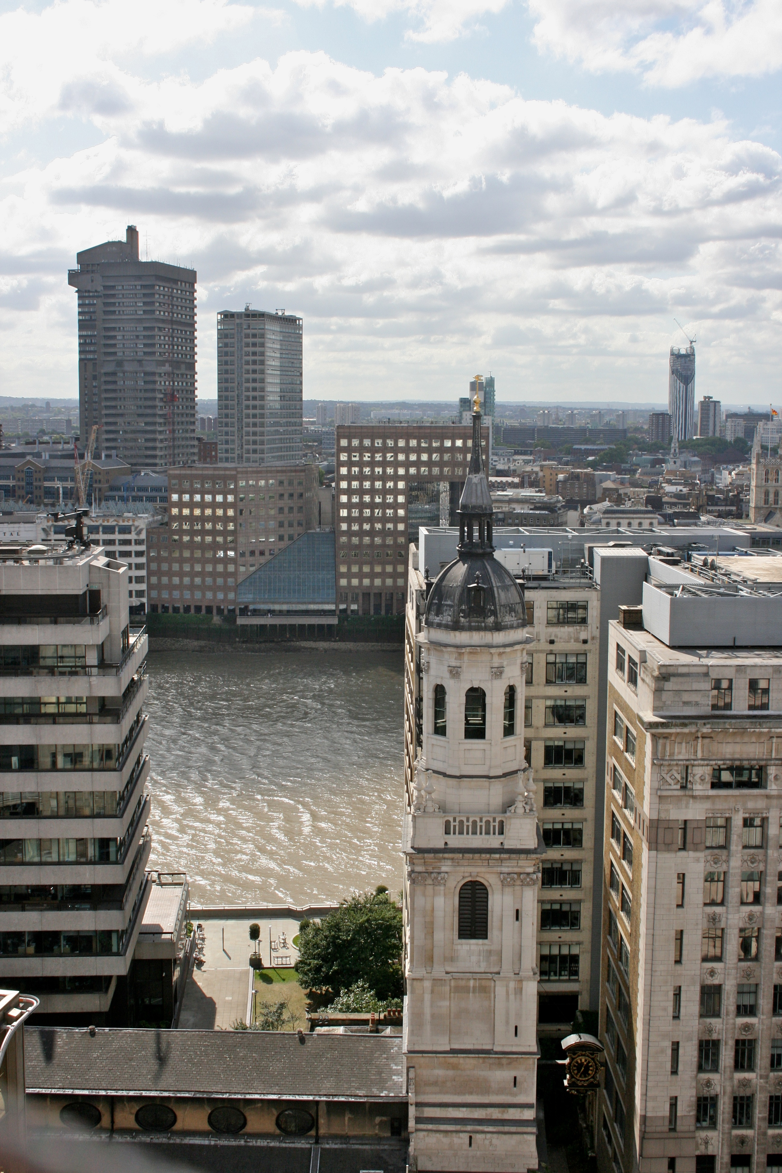 View from the top of the Monument to the Great Fire of London, London.